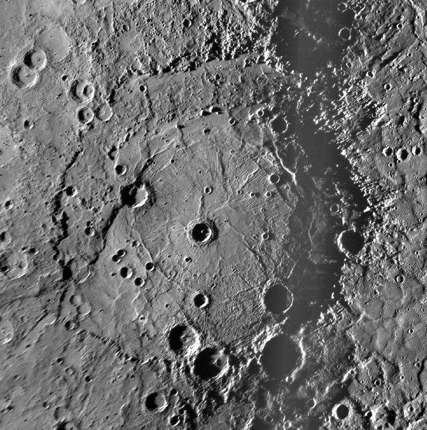 Date Acquired: mosaic of images, obtained during first (14 January 2008) and second (6 October 2008) Messenger's flybys (Watters T.R. et al. (2009). "Evolution of the Rembrandt Impact Basin on Mercury". Science 324 (5927): 618–621. PMID 19407197.) Instrument: Narrow Angle Camera (NAC) of the Mercury Dual Imaging System (MDIS) Scale: Image width about 1000 km, Rembrandt basin has a diameter of 715 kilometers (444 miles) Of Interest: This NAC mosaic of the newly discovered Rembrandt impact basin was presented last week during a NASA media teleconference. The number per area and size distribution of impact craters superposed on Rembrandt's rim indicates that it is one of the youngest impact basins on Mercury. To read more about Rembrandt and view other images presented during the event, visit the media teleconference webpage. Credit: NASA/Johns Hopkins University Applied Physics Laboratory/Smithsonian Institution/Carnegie Institution of Washington